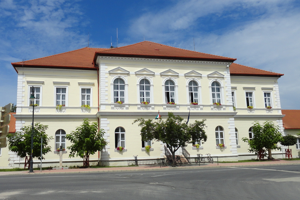 Kisbér (Komárom-Esztergom County, Hungary) - City Hall